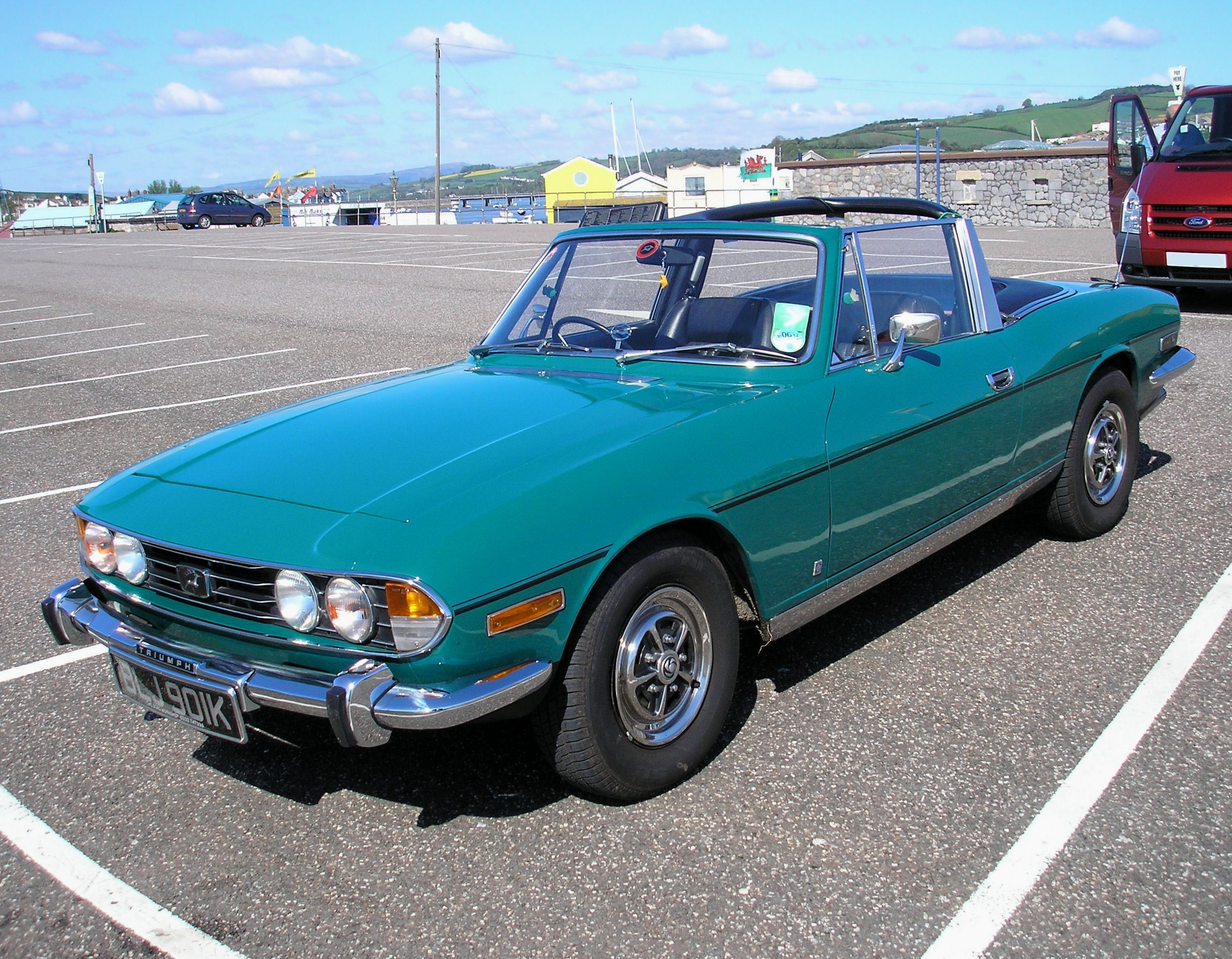 Teignmouth in Lyme Bay actually. Captured on May 15th 2012. Camera: Olympus FE-120 6.0 Digital.